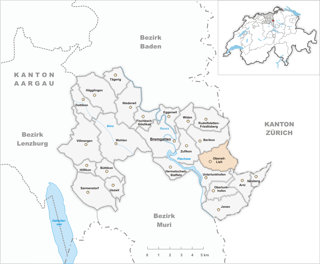 Municipality Oberwil-Lieli